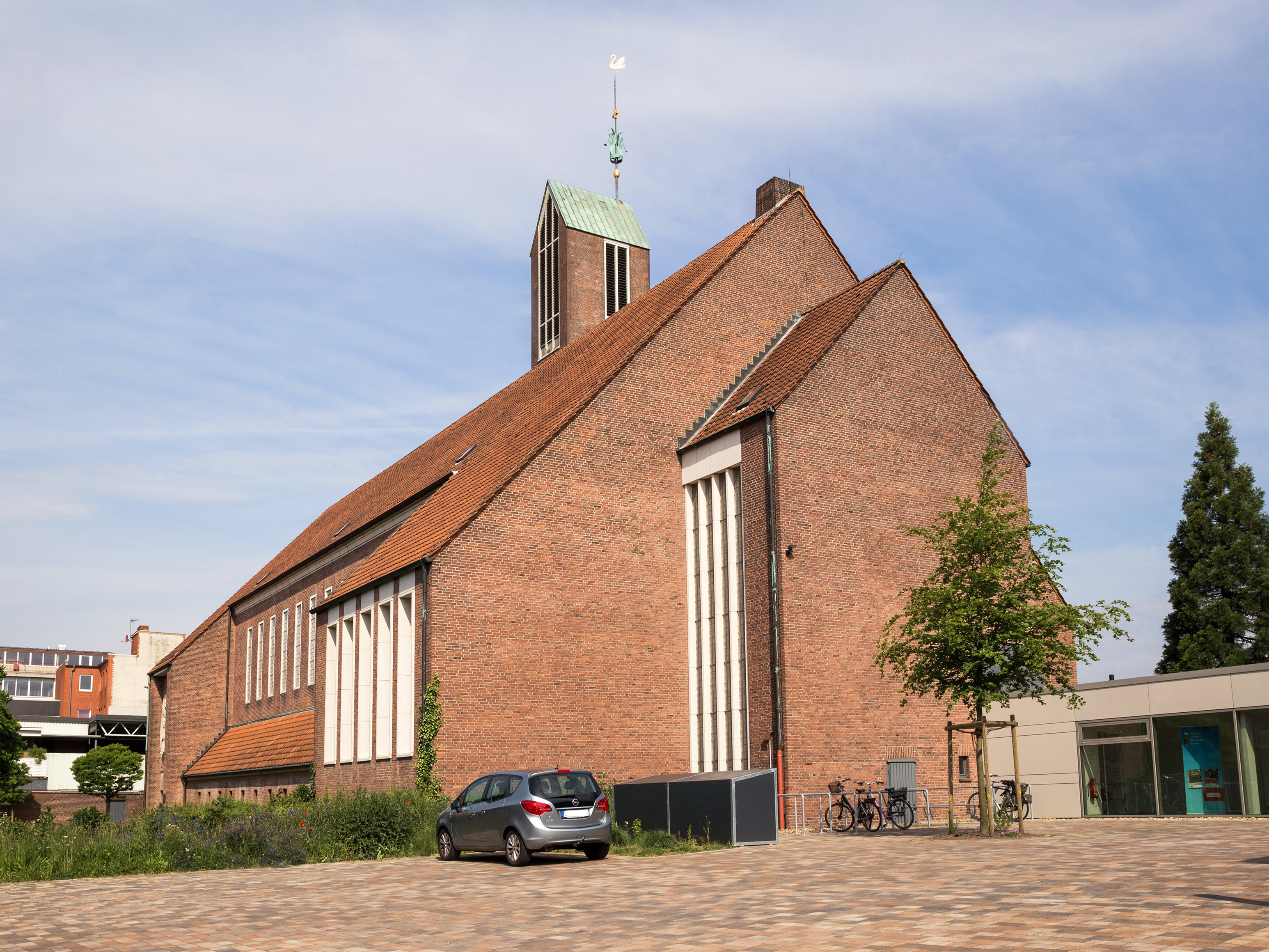 Emden, church "Martin-Luther-Kirche"